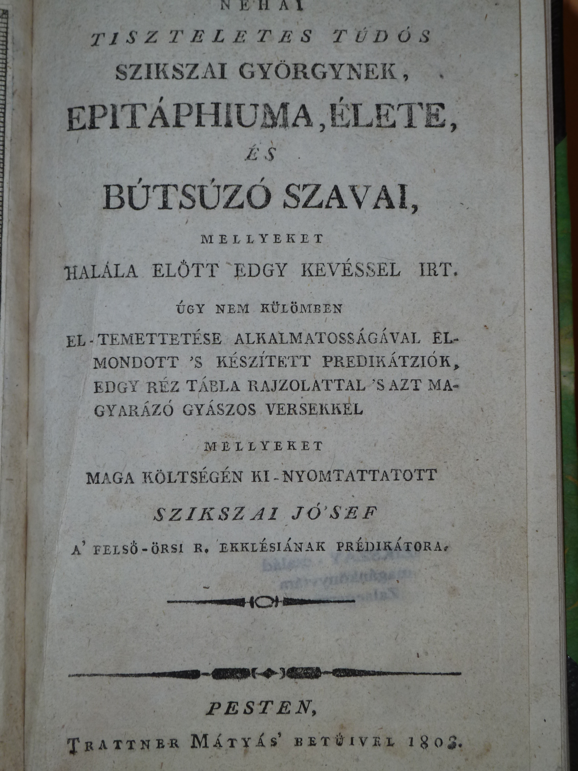 Epitaphium of György Szikszai. Pest, 1803.